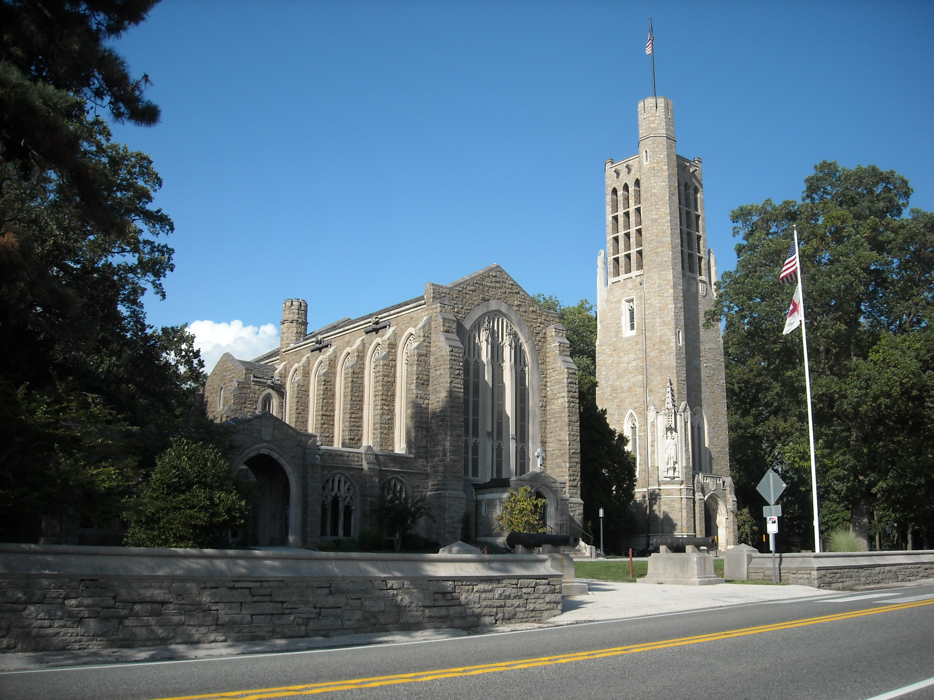 Washington Memorial Chapel and National Patriots Bell Tower